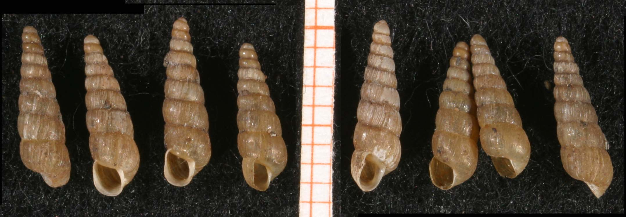 Photo of shells of Balea perversa. Locality: Sweden: Öland, between Vickleby and Resmo. Date: July 1958.